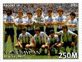 Select football team of Argentina - World Football Champion of the year 1986.